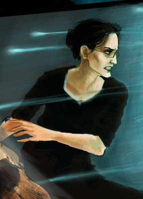 McGonagall (facing Snape) in Harry Potter and the Deathly Hallows.